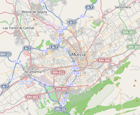 Map of Murcia, SpainThis map of Murcji was created from OpenStreetMap project data, collected by the community. This map may be incomplete, and may contain errors. Don't rely solely on it for navigation.